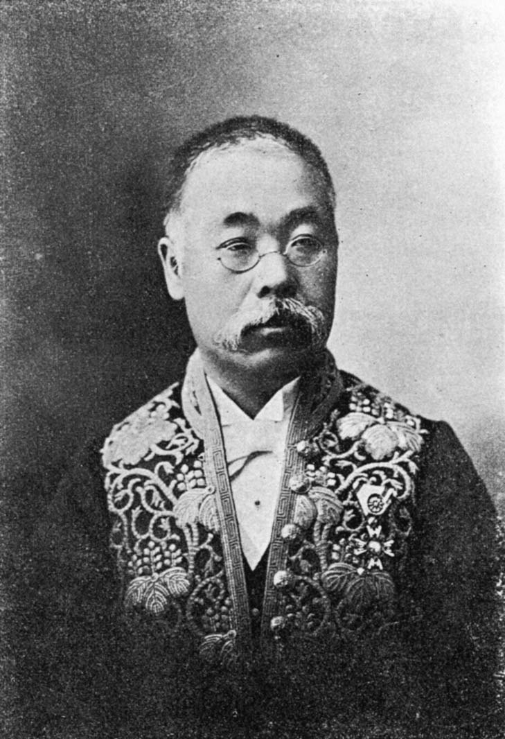 Mr. Naokichi Matsui, chief of the Bureau of Special School Affairs.